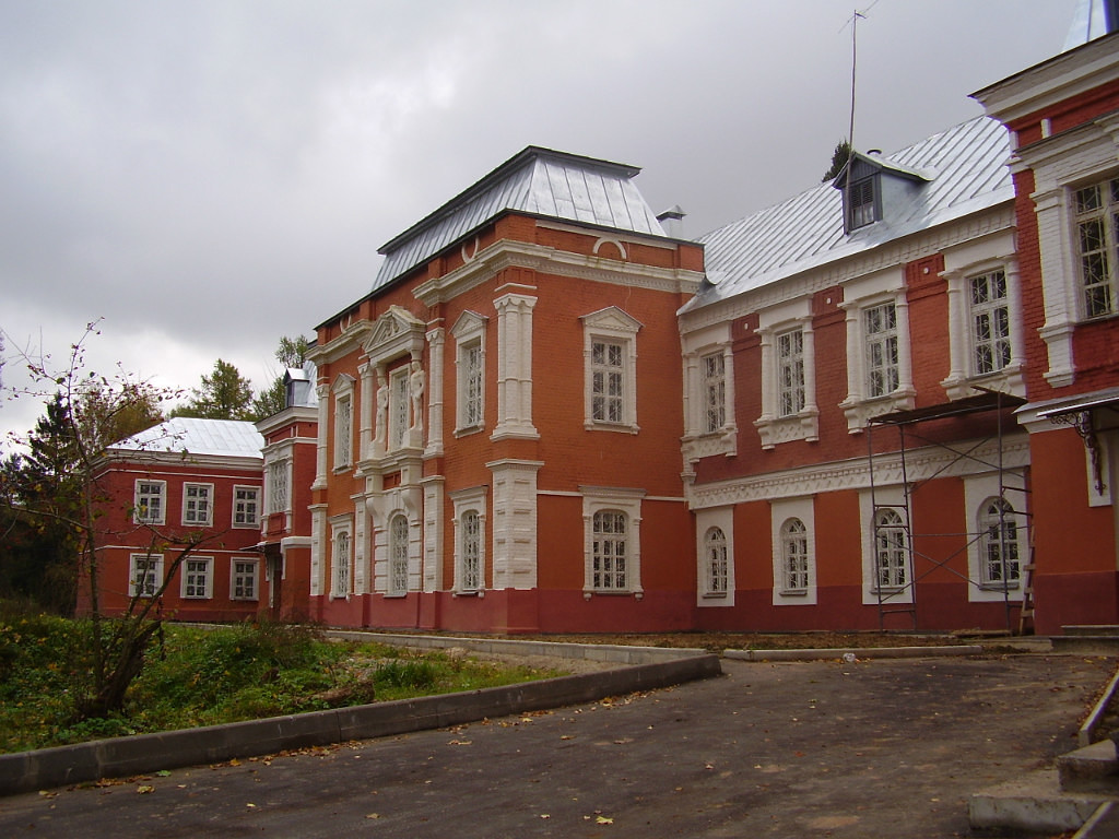 Courtyard of the barons Bode family palace